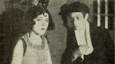 Still from the American film Fascination (1922) with Mae Murray and Creighton Hale, page 54 of the July 1922 Photoplay.